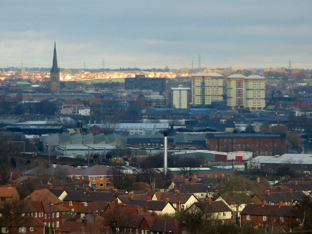 Photo of Wakefield, taken 30 January 2005 from Sandal Castle.